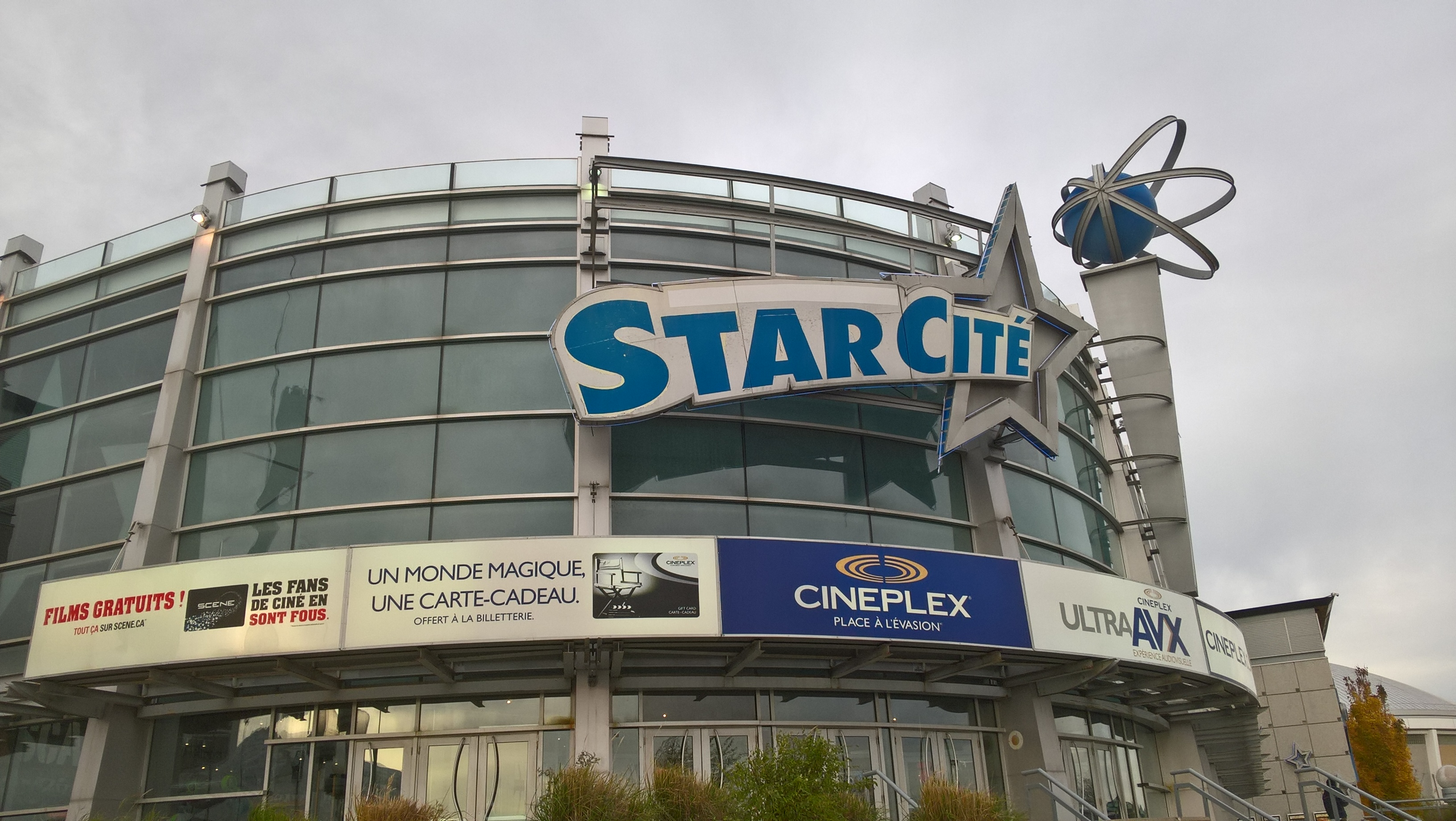 StarCité Montréal cinema